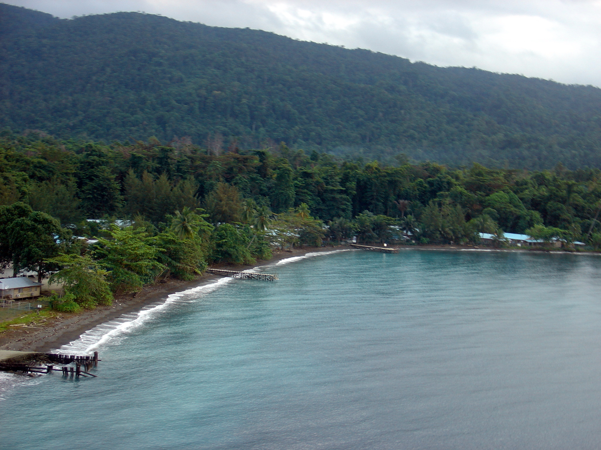 Halmahera (also Jilolo or Gilolo) is the largest island in the Maluku Islands. It is part of the North Maluku province of Indonesia. Halmahera has a land area of 17,780 km² (6,865 sq mi) and a population in 1995 of 162,728. About half of its inhabitants are Muslim and about half are Christian.